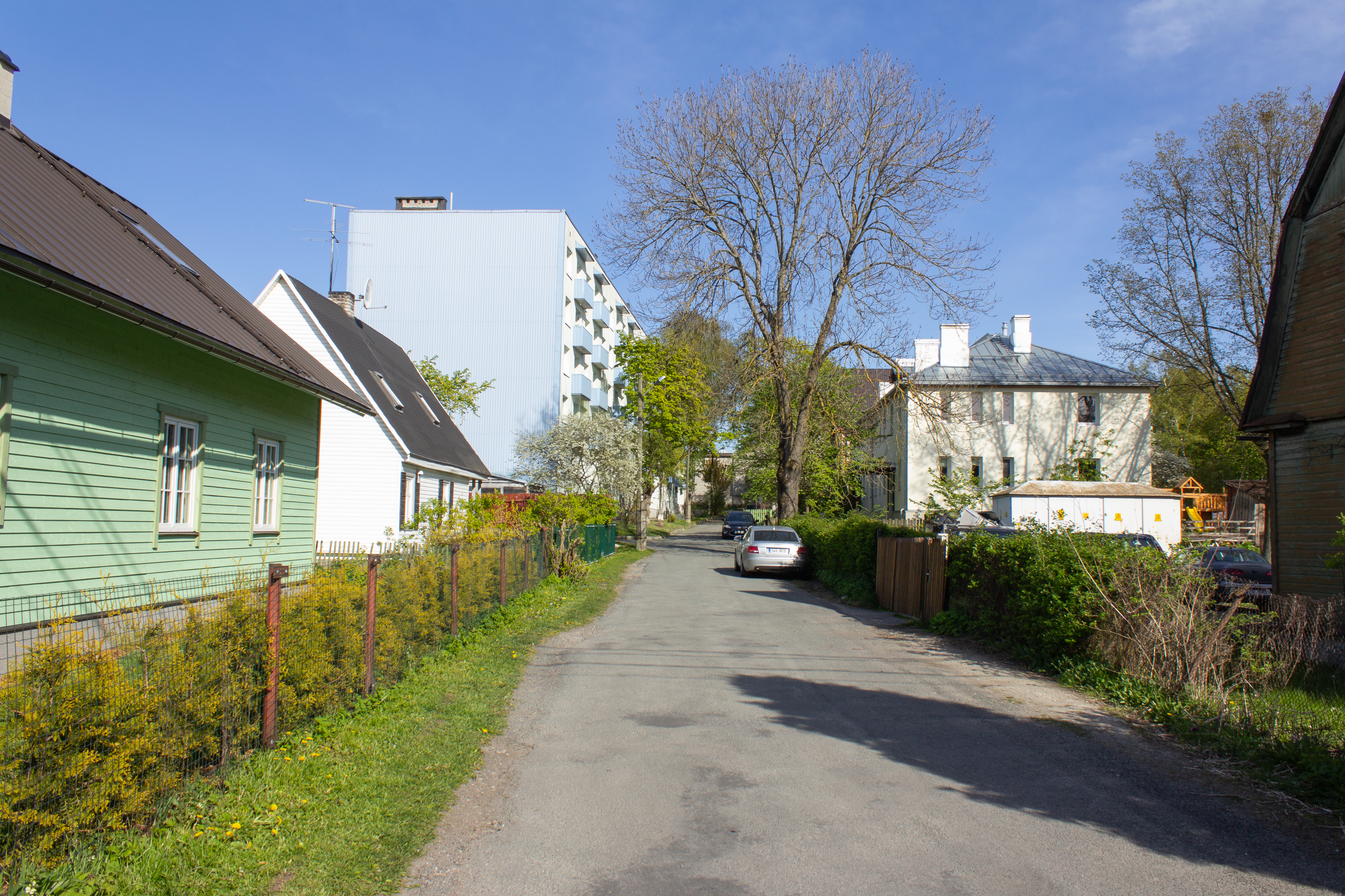 Kanepi Street, Tallinn (2020-05-23)